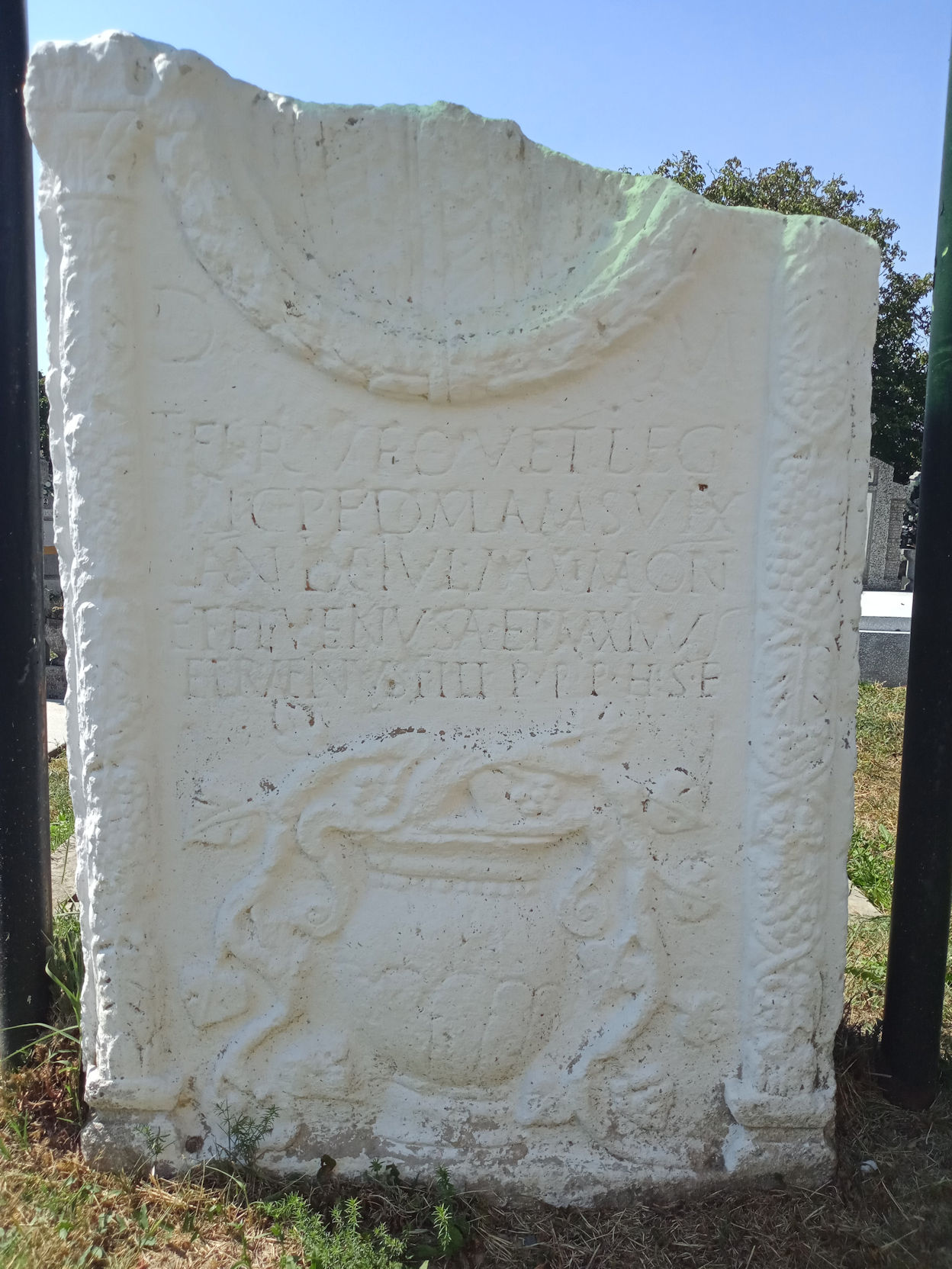 Tombstone of Roman veteranus Titus Flavius Rufus located in Răhău, Alba Couty, Romania. CIL III 971 = IDR 3-4, 8 = AE 1944, 44: D(is) M(anibus) / T(ito) Fl(avio) Rufo vet(erano) leg(ionis) / XI C(laudiae) P(iae) F(idelis) dom(o) Amas(ia) vix(it) / an(nos) LX Iulia Maxima con(iux) / et Fl(avi) Venusta et Maximus / et Rufinus fili(i) p(ro) p(ietate) p(osuerunt) h(ic) s(itus) e(st)